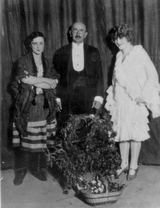 Gedeon Mészöly, "the dramatist" is avec players on Szeged, 1927